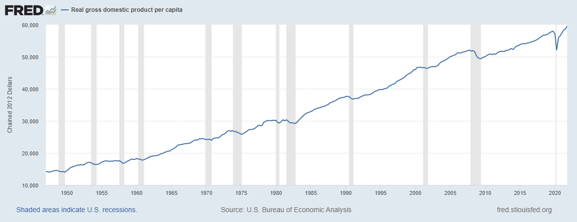 Real GDP per capita in the United States